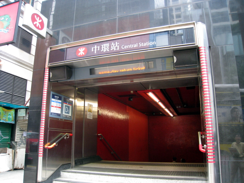 HKMTR Central Station D1 Exit